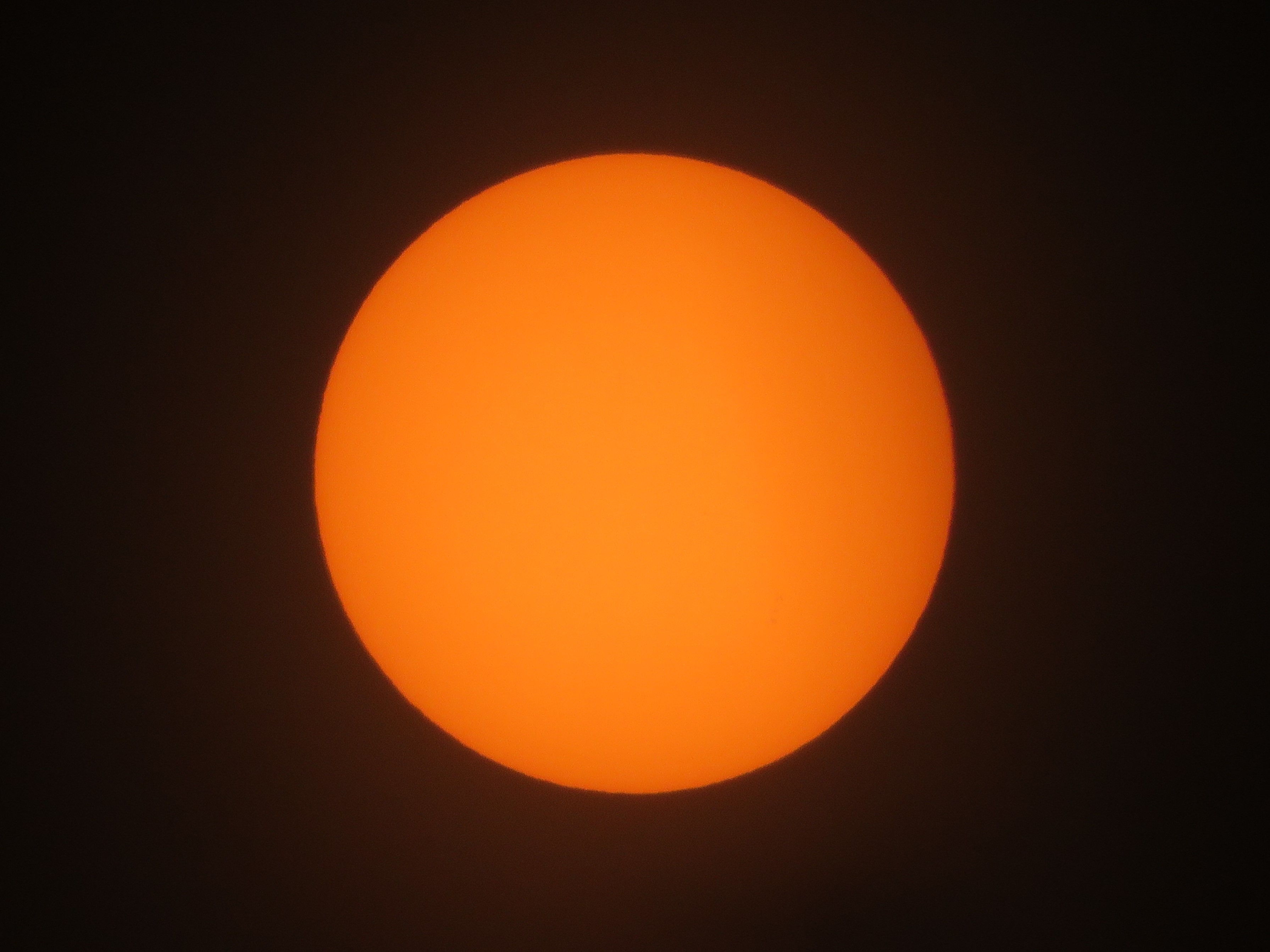 The sun at the moment of the spring equinox when winter became spring in the northern hemisphere in 2019. The spring equinox occurs when the sun crosses the celestial equator – the imaginary line in the sky above the earth's equator – from south to north. The sun is white but the use of a solar filter in taking this picture makes it look orange.